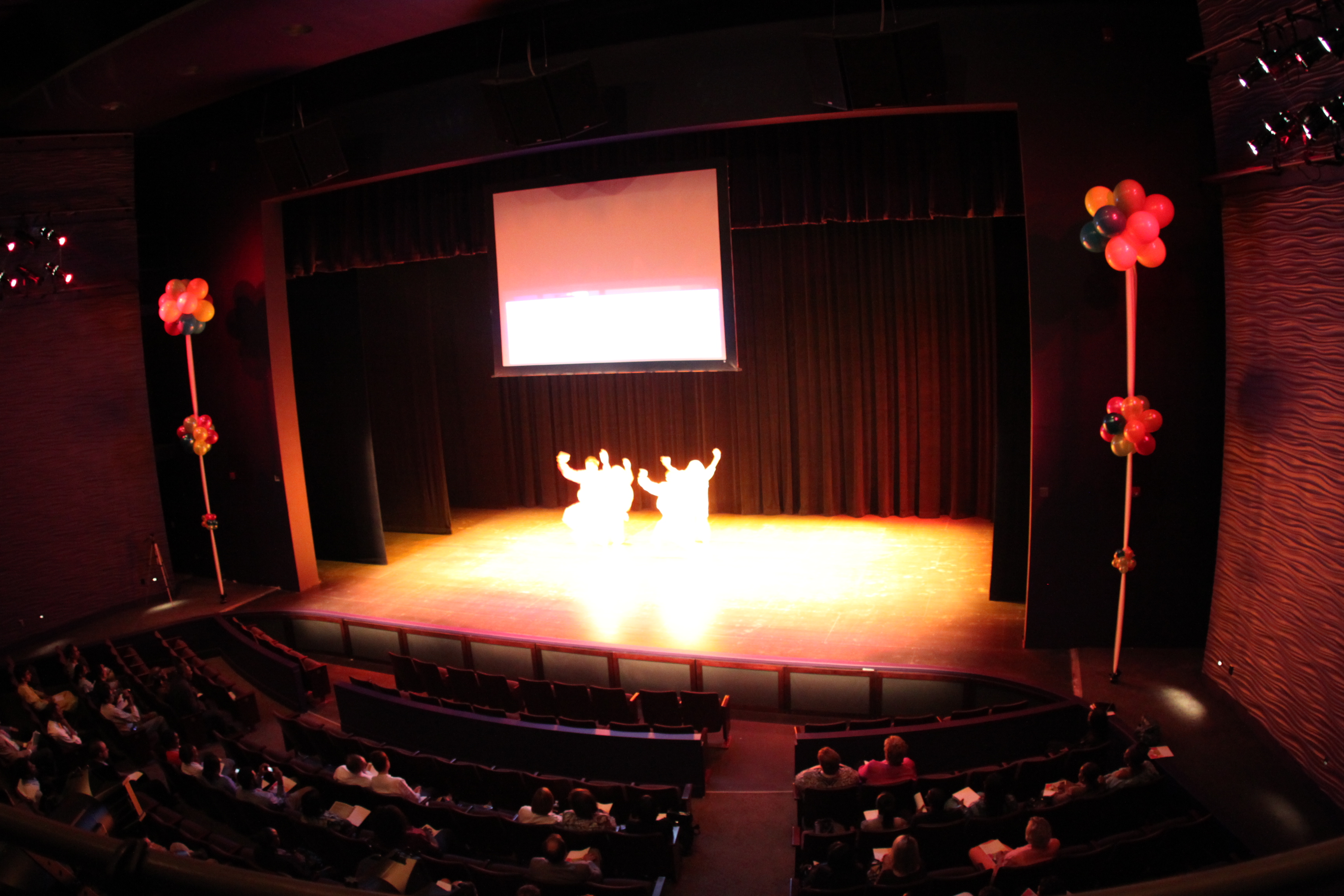 Theater stage in August Wilson Center This photo is not photoshopped. Exposure: 0.167 sec (1/6) Aperture: f/2.8